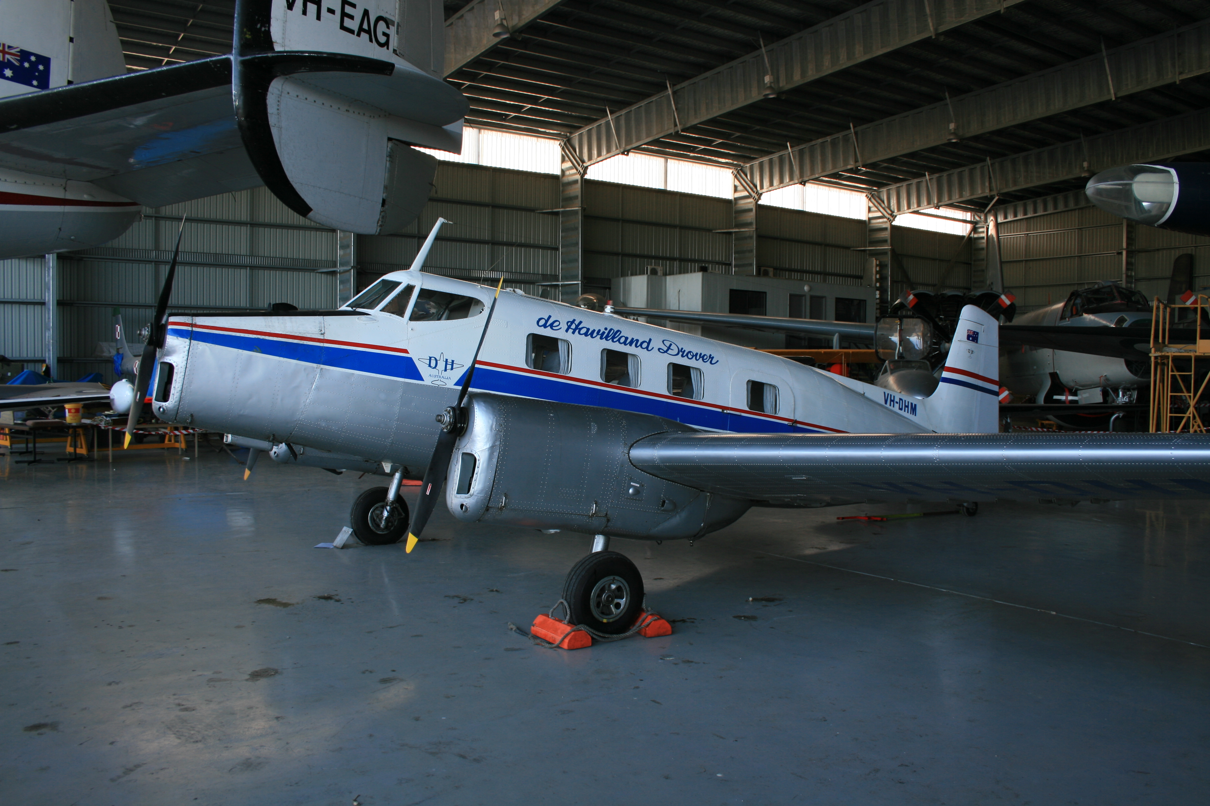 de Havilland Australia Drover VH-DHM is operated by the Historical Aircraft Restoration Society. It is seen here at the HARS facility at Wollongong Airport. Digital photo of VH-DHM taken by YSSYguy on September 25 2007 for use in article about the de Havilland Australia DHA-3 Drover.